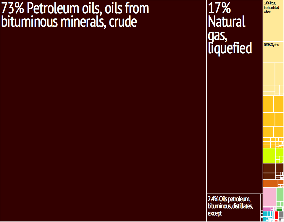 Yemen Export Treemap from MIT Harvard Economic Complexity Observatory